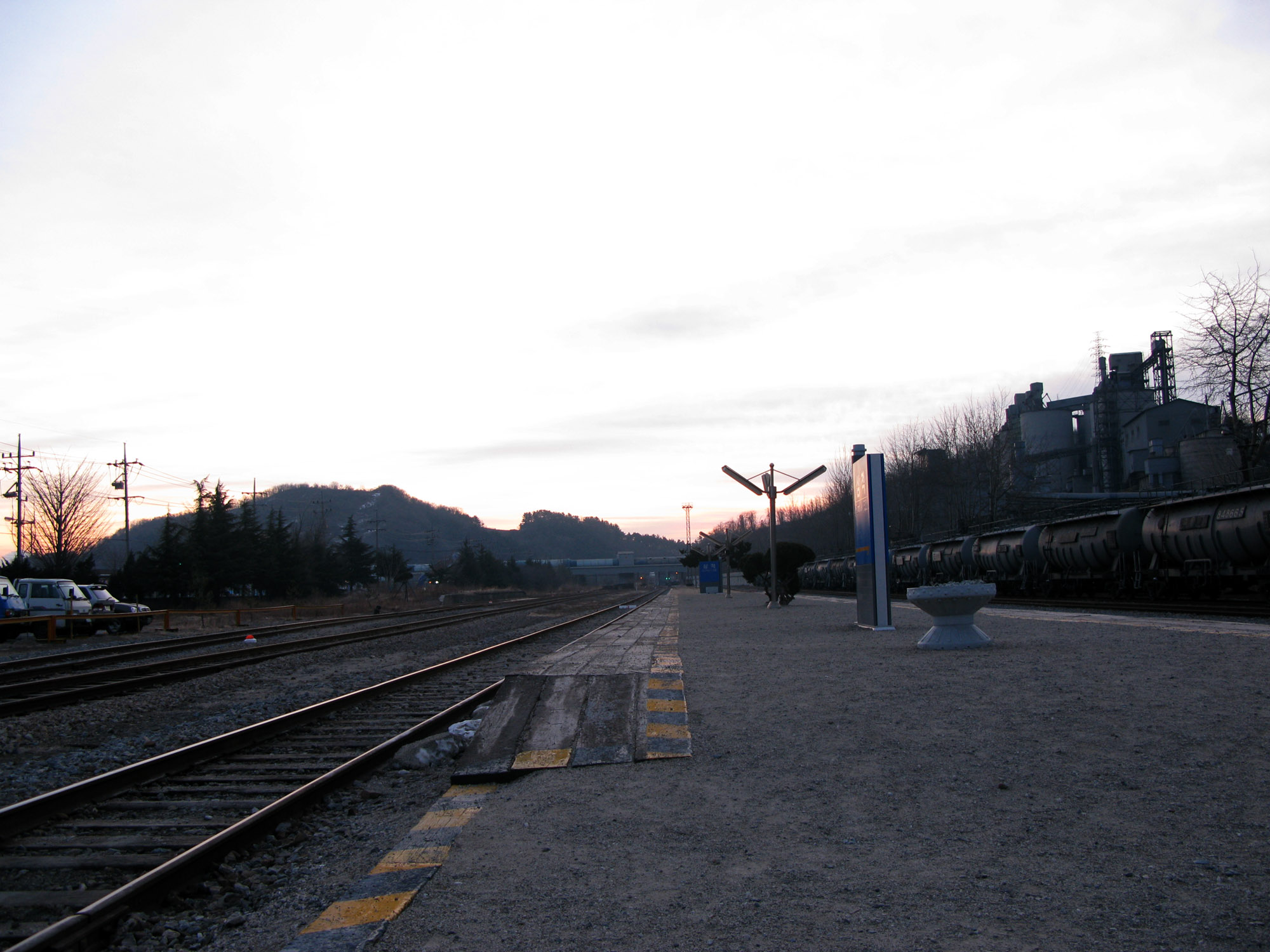 Samcheok Line Samcheok Station Platform